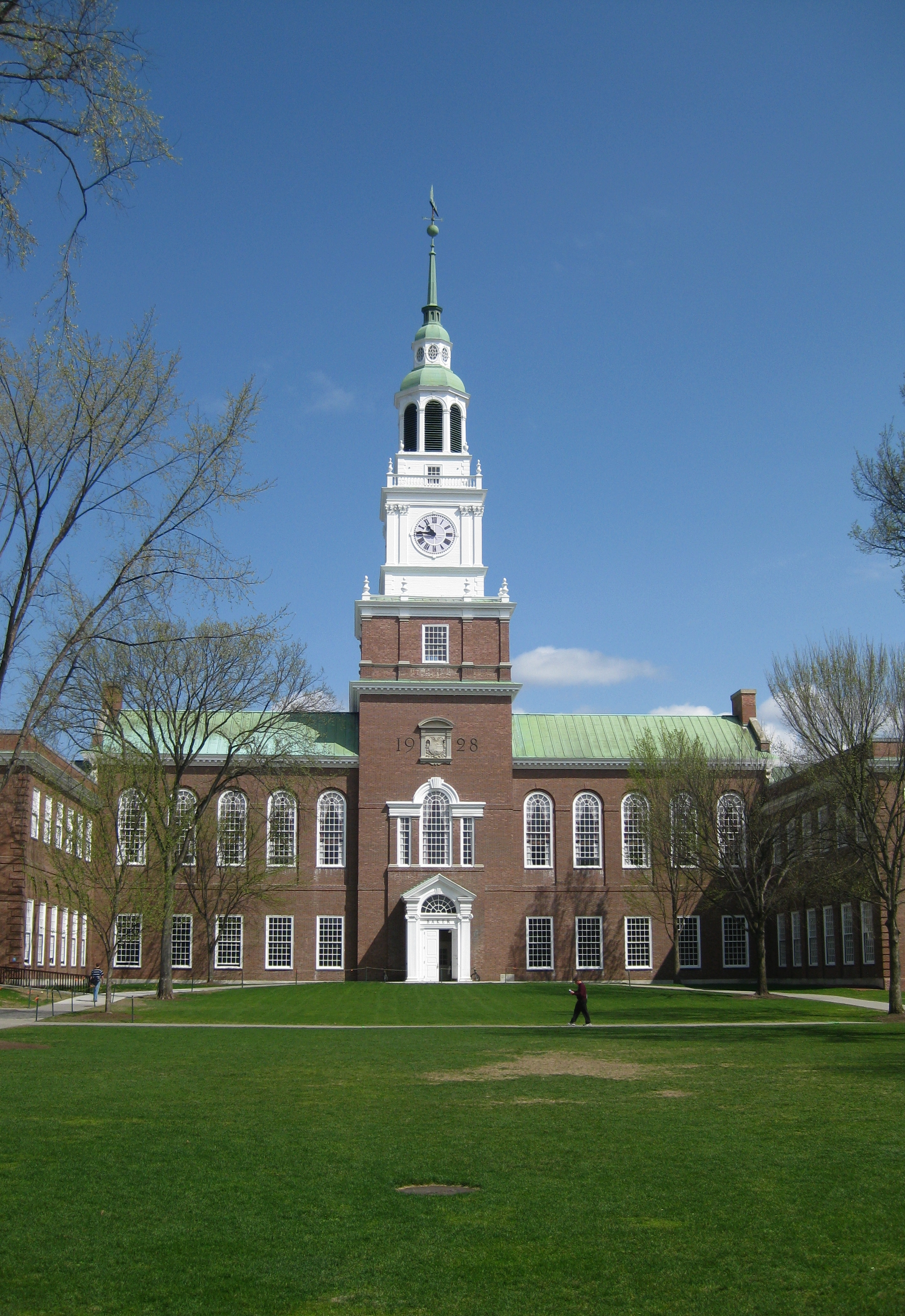 Baker Library at Dartmouth College